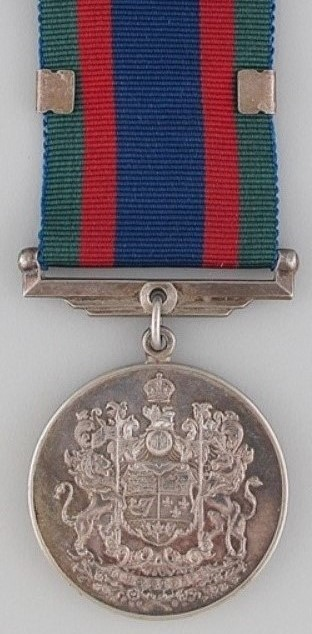 Canadian campaign medal for WW2, with clasp for overseas service.